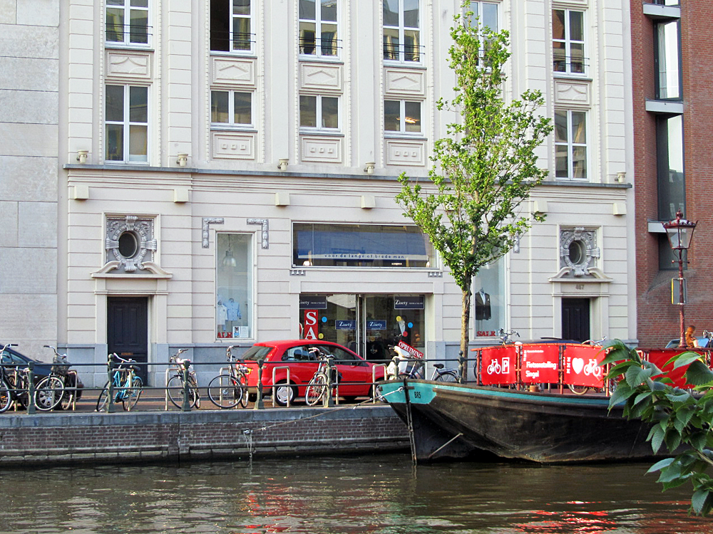 The building at Singel 465-467 in Amsterdam in which from 1987 - 1999 the famous disco RoXY was located.